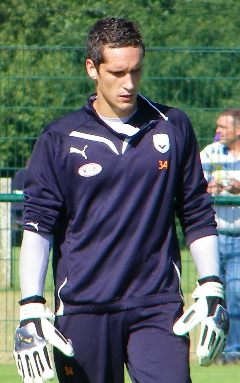 Damien Dropsy